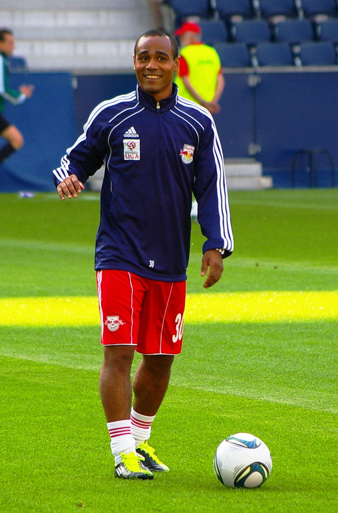 striker FC Salzburg